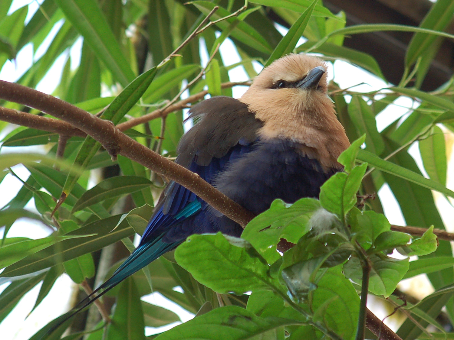 A photograph of a Blue-bellied Rolleren (Coracias cyanogaster en ) fluffing its feathers. Photo taken at the National Aviary.